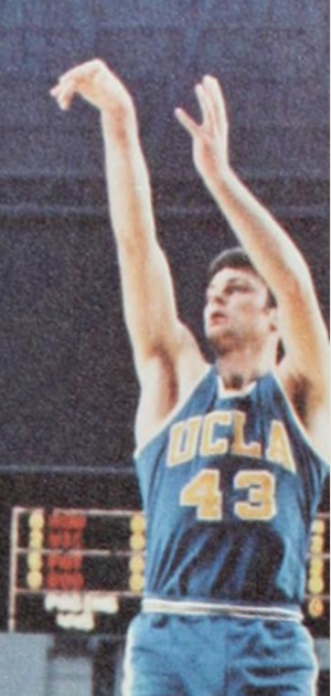 Terry Schofield of UCLA against Villanova in the championship game of the 1971 NCAA Tournament